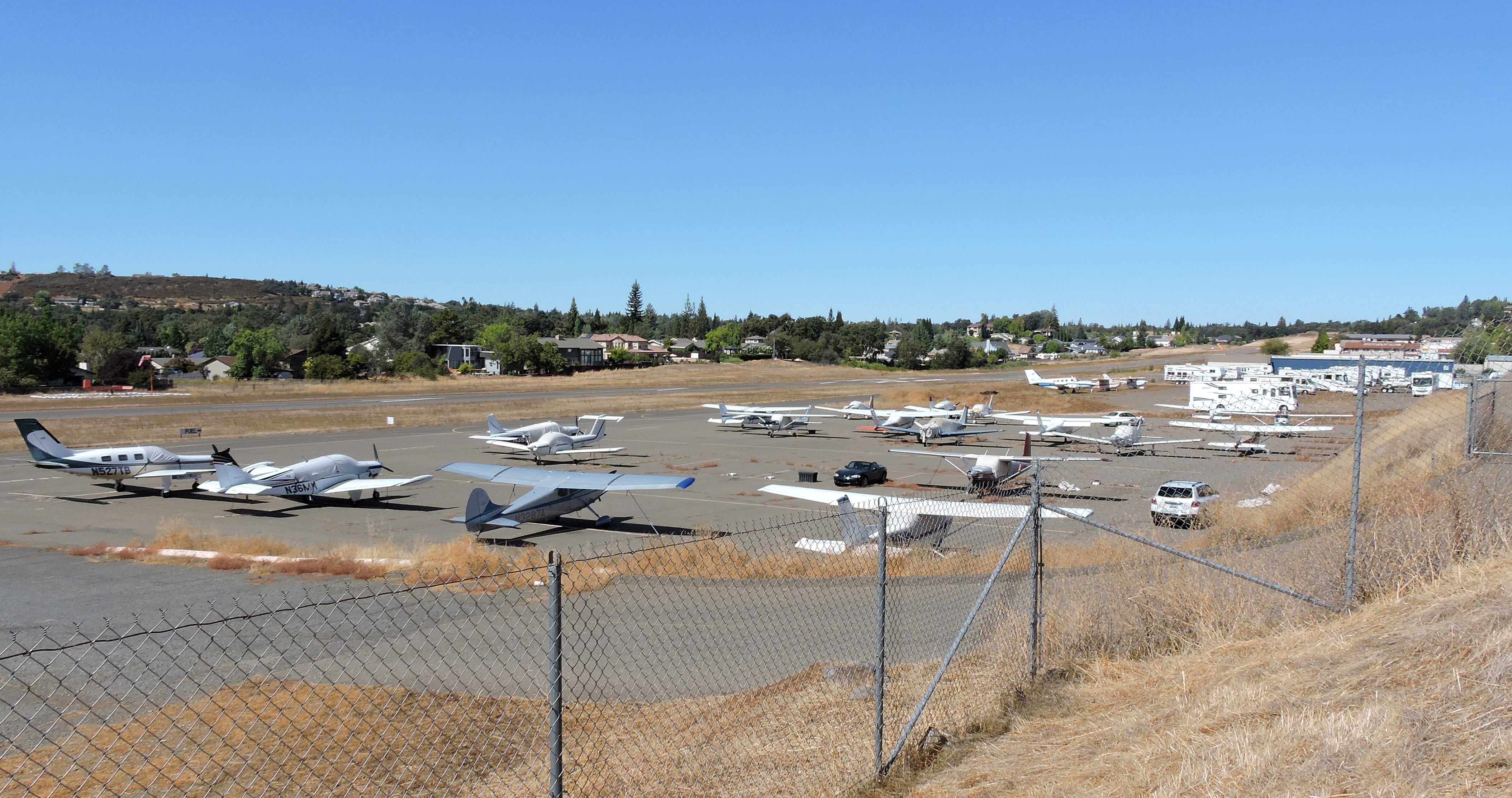 Eastern side of Cameron Airpark in the U.S. state of California.